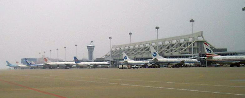 The terminal of Xiamen Gaoqi International Airport. (before expansion)